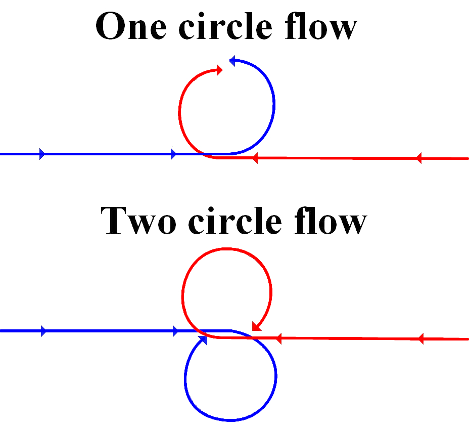 Circle flow concept in basic fighter maneuvering